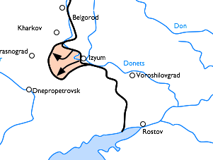 Picture of the Izium Salient in 1942. Cropped from :Image:Eastern_Front_1941-12_to_1942-05.png by User:Gdr.